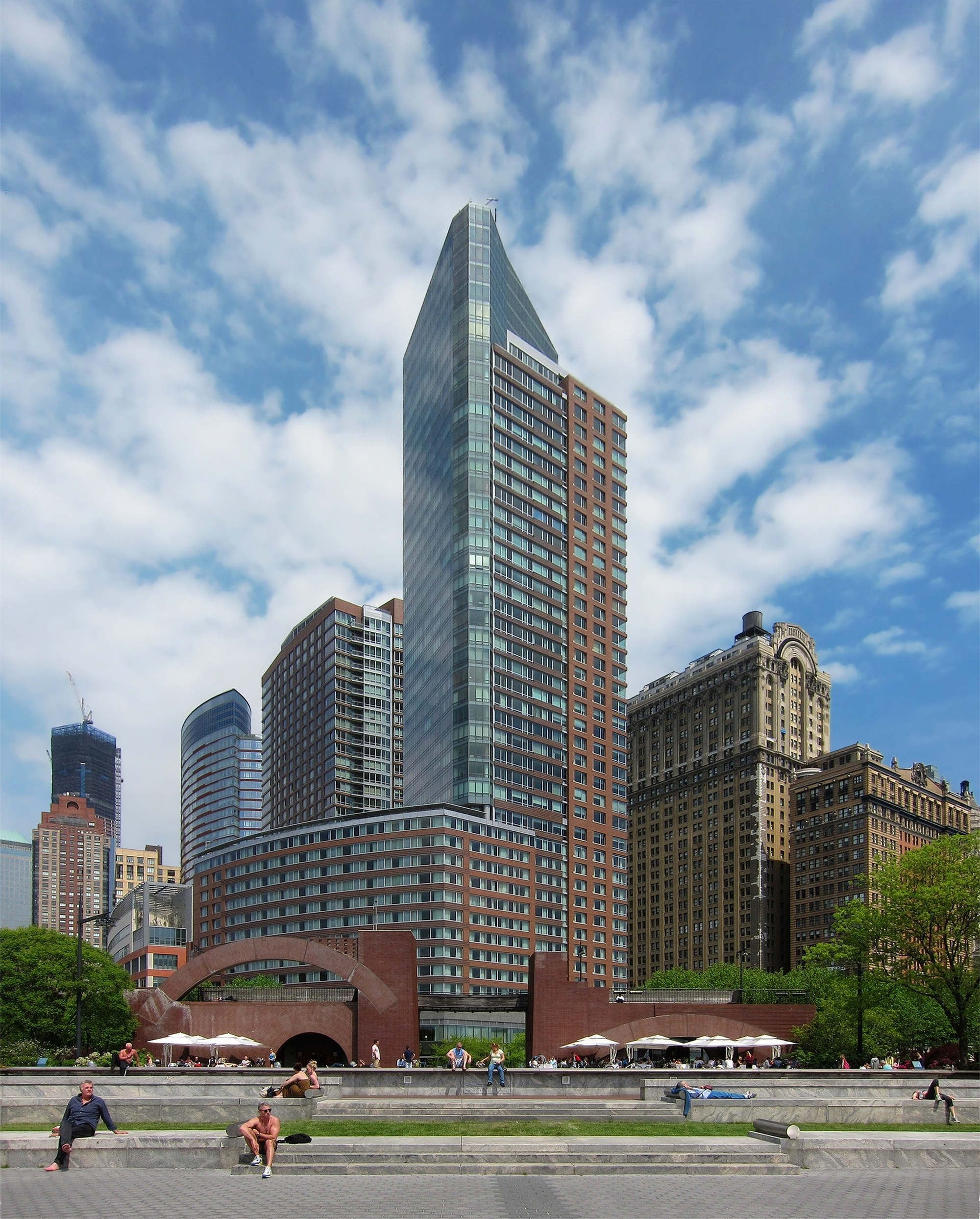 View from Battery Park, New York City.